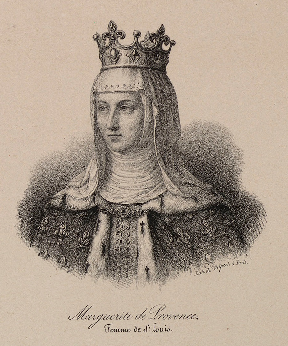 Margaret of Provence (1221-1295), wife of Louis IX of France